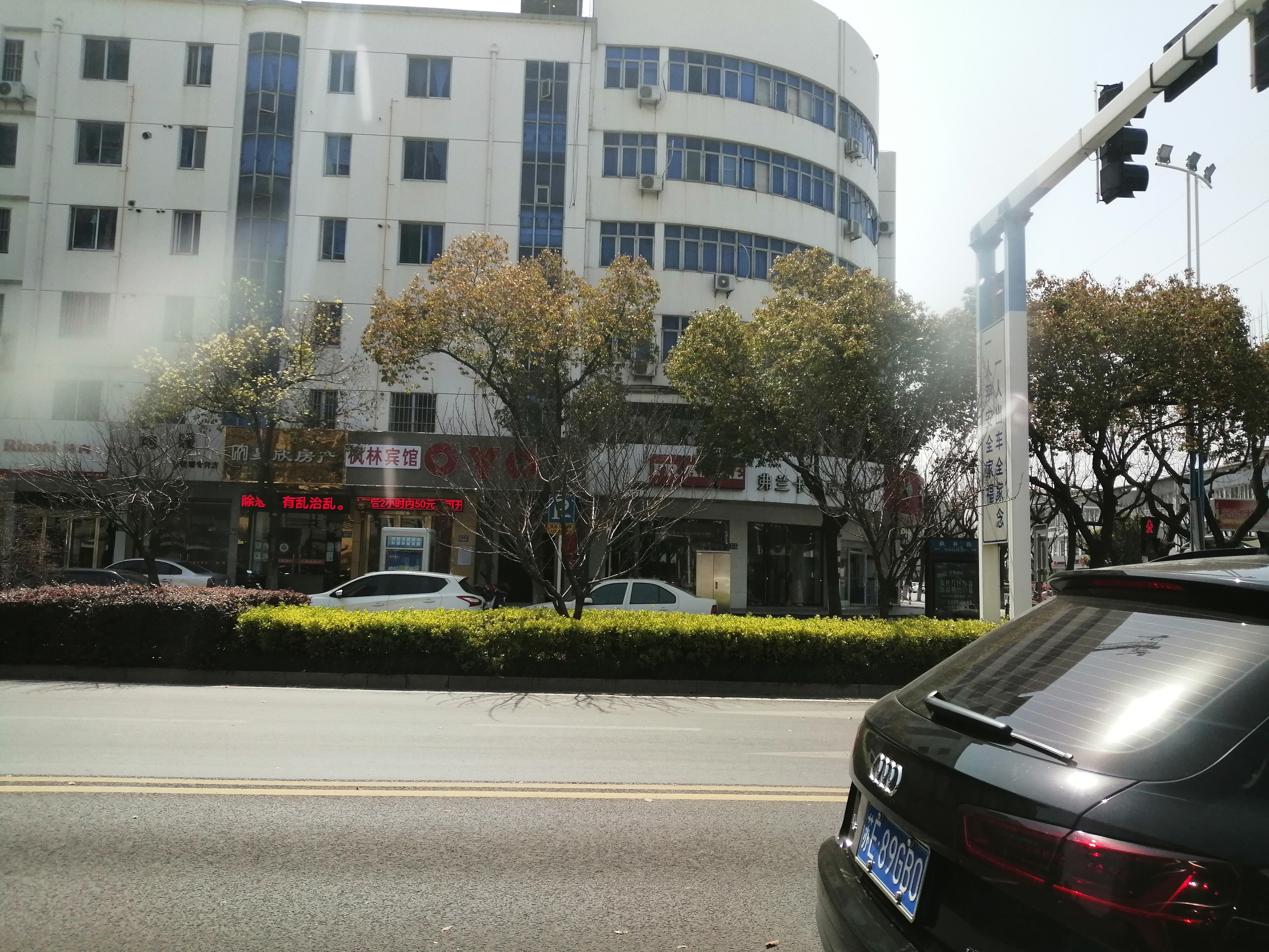 OYO Fenglin Hotel, located in Yushan Subdistrict, Changshu, Jiangsu, China 中文（中国大陆）: OYO枫林宾馆，位于江苏省常熟市虞山街道